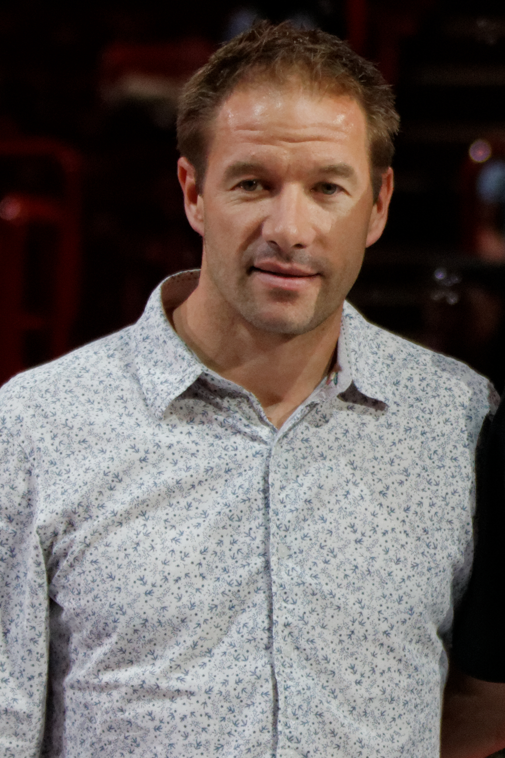 2013 World Table Tennis Championships, Paris. Jean-Michel Saive vs Jean-Philippe Gatien exhibition match. Christophe Legoût.